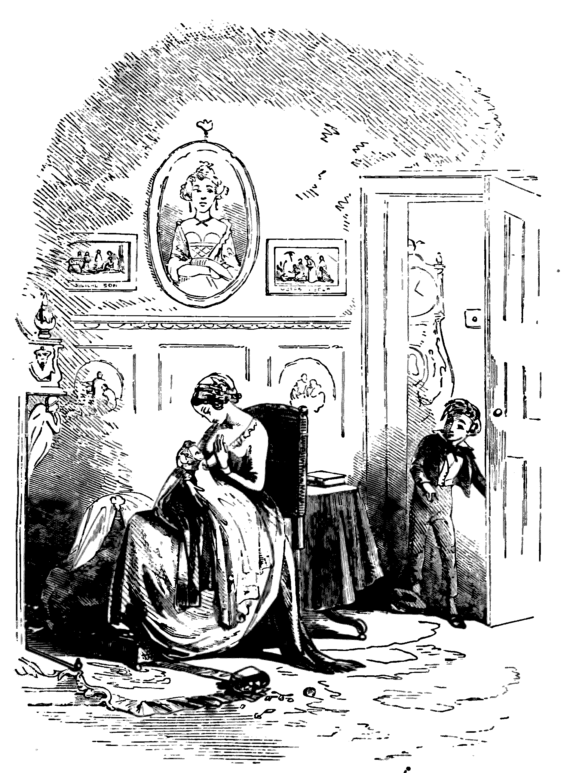 CHANGES AT HOME